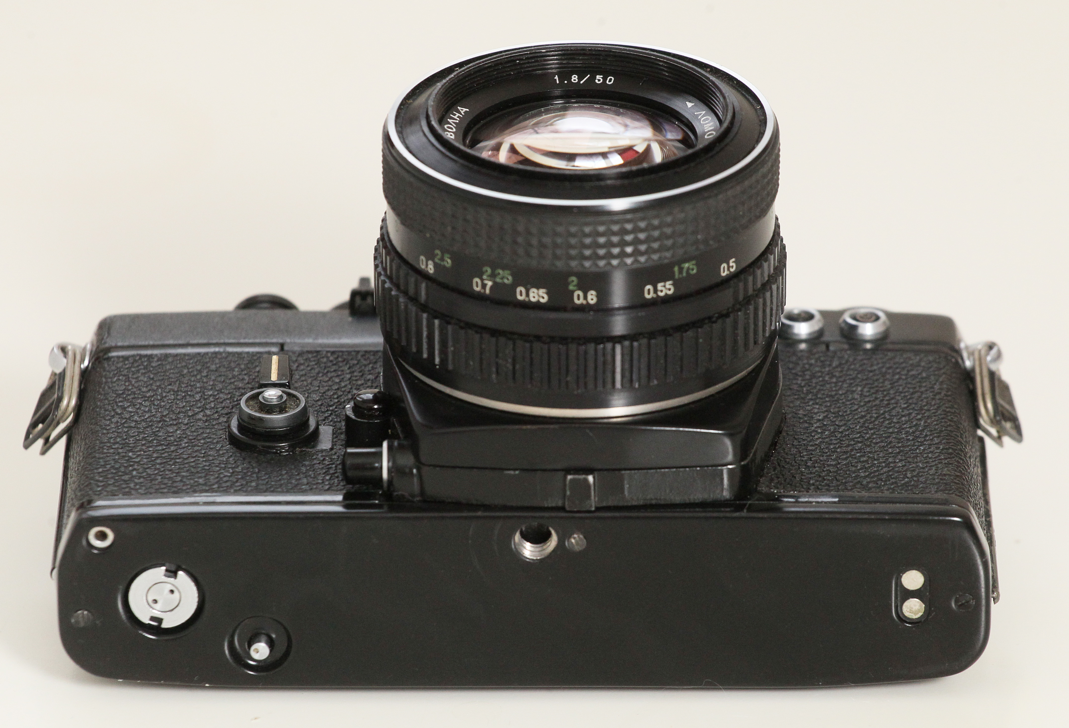 Soviet 35-mm SLR camera 'Almaz-103' from bottom plate with motor drive coupling